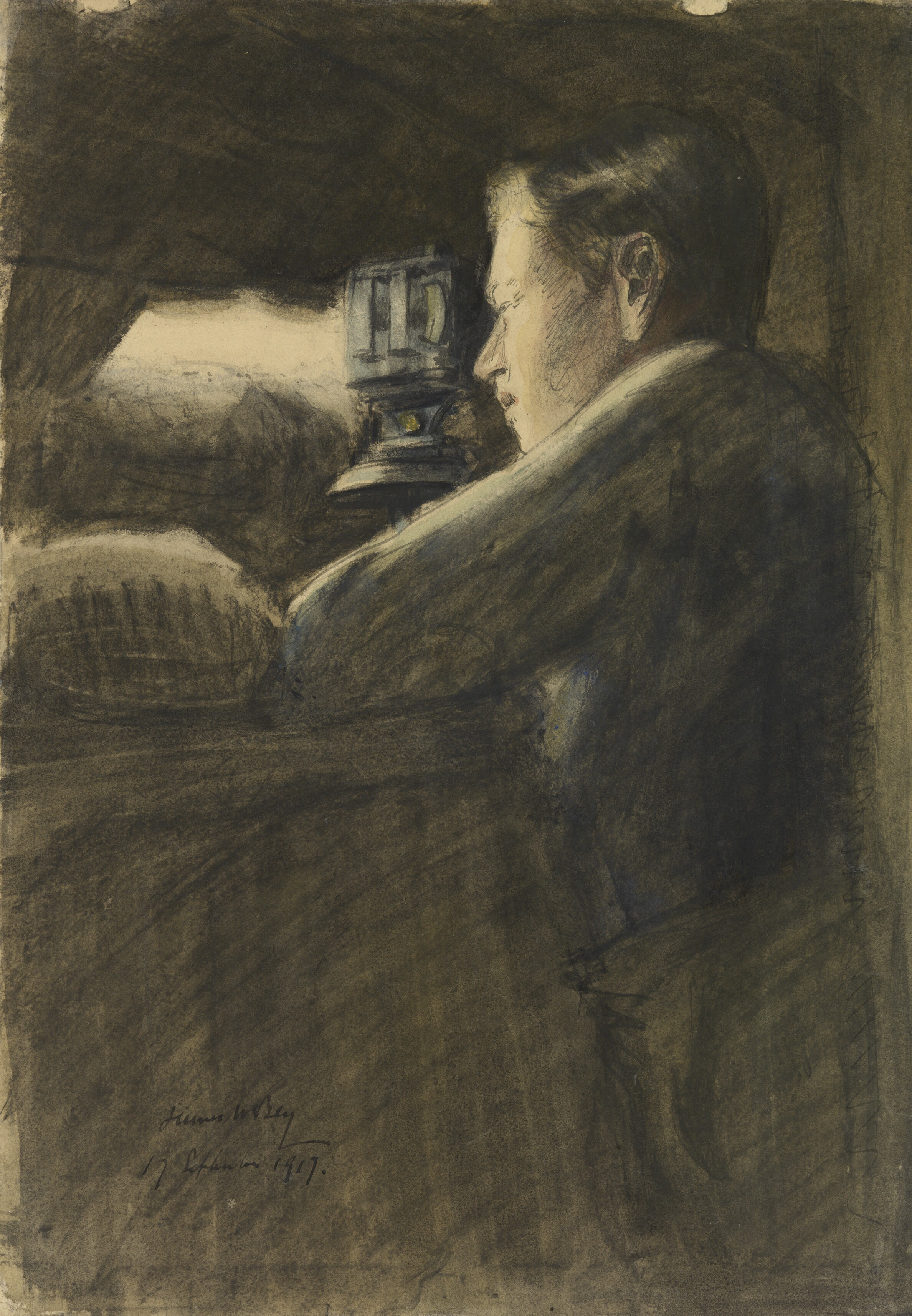 An Artillery Observer - a young officer observing the effect of the shells of his battery. the results of fire are telephoned back to the guns, some miles behind. image: a young British artillery officer stands within an enclosed and covered observation post, observing British artillery fire through a device positioned on the parapet. He looks through a small loophole, the upper wall of the parapet partly made from sandbags.